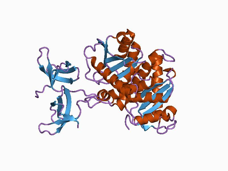 Cartoon representation of the molecular structure of protein registered with 1c1a code.